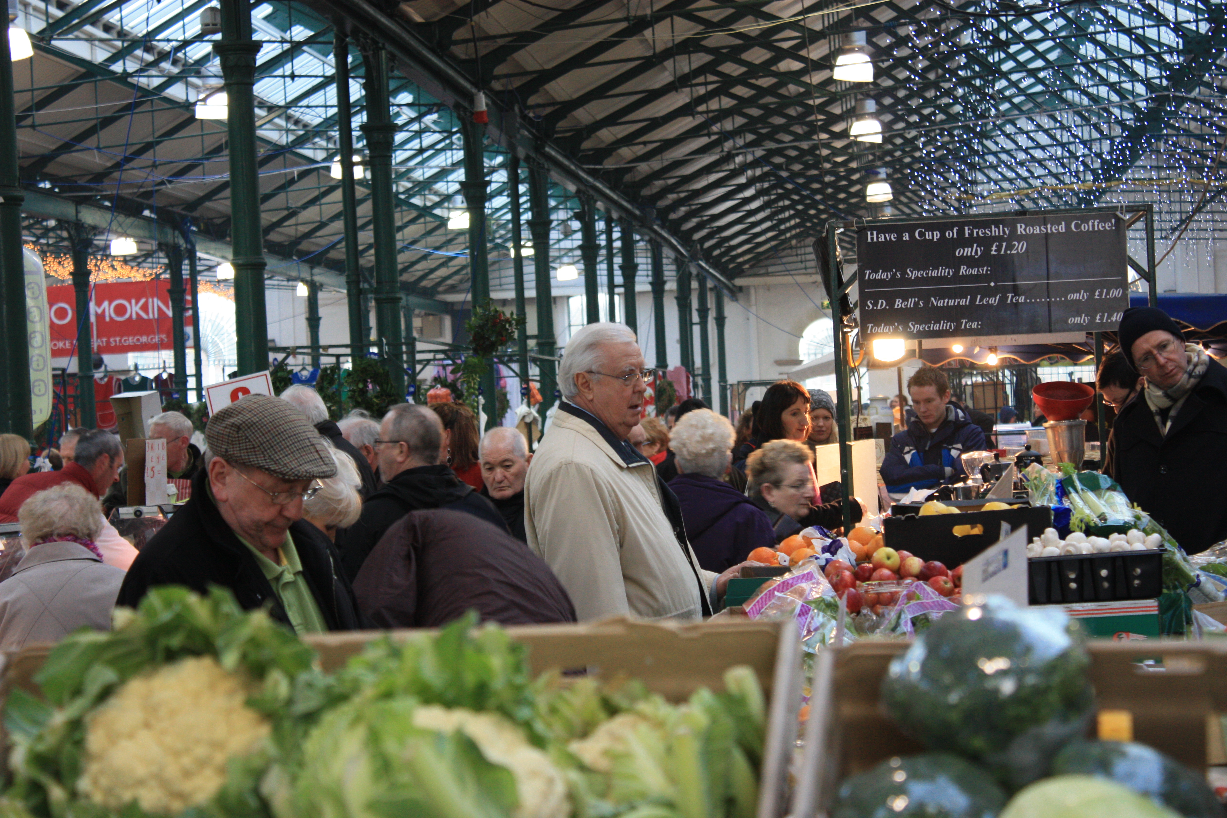 St George's Market, East Bridge Street, Belfast, Northern Ireland, December 2009